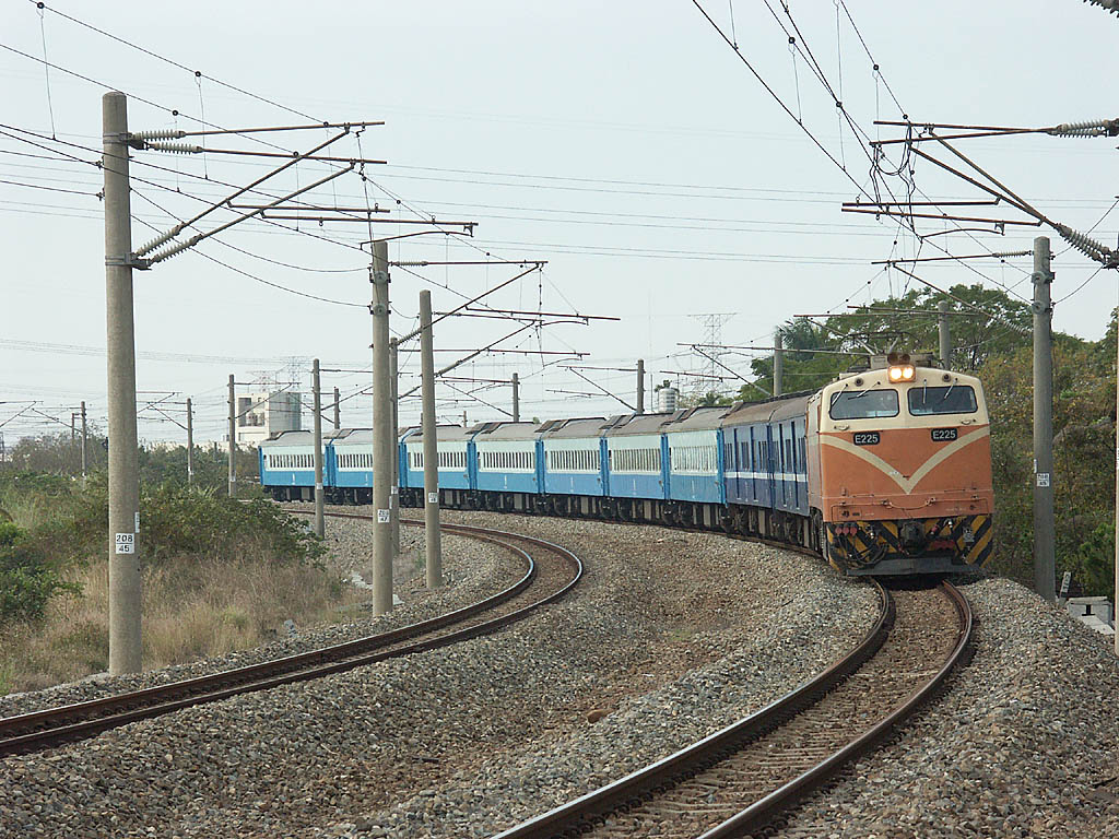 Taiwan Railway Administration Ordinary Express Train.